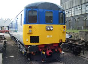 NIR BR Mk 2 refurbished DBSO coach in 2009